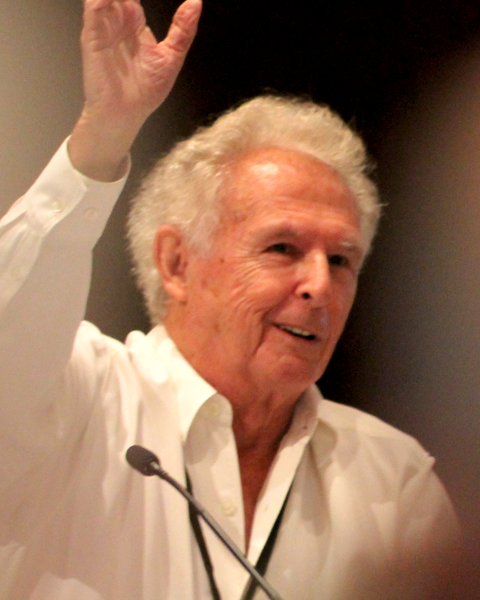 Baseball executive Tal Smith at the 2014 annual convention of the Society for American Baseball Research.